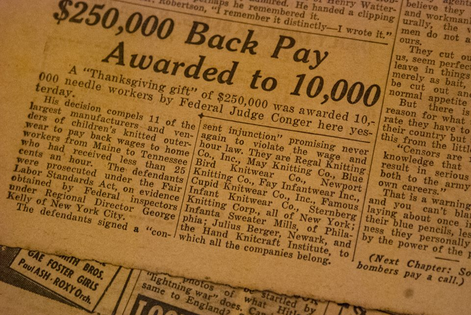 A newspaper clipping from the 1930s and 1940s, as distributed in Upstate NY and recovered from under an old carpet. This clipping discusses a court case involving a wage claim in Amsterdam, New York.